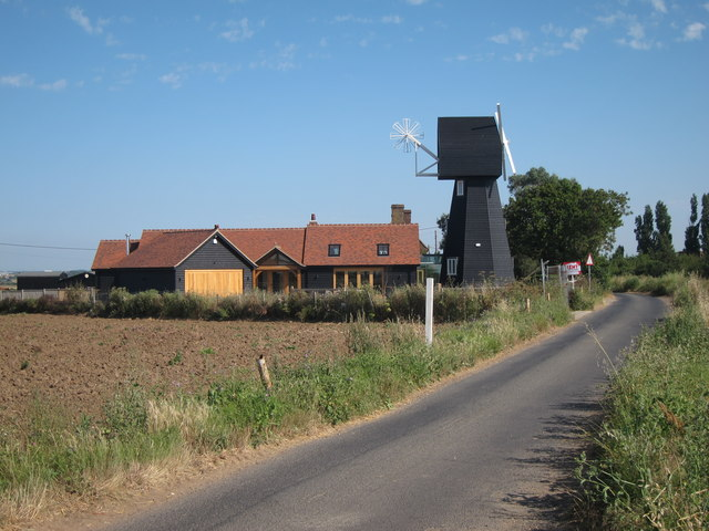 Chislet Mock Mill, Kent. Built to replace original which burned down in 2005.